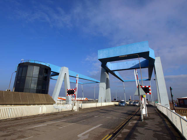 Clough Road Twin Lift Bridges over the River Hull